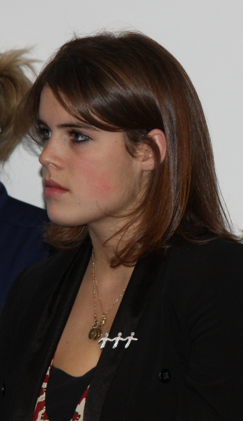 Princess Eugenie in the Teenage Cancer Unit at St. James' Hospital